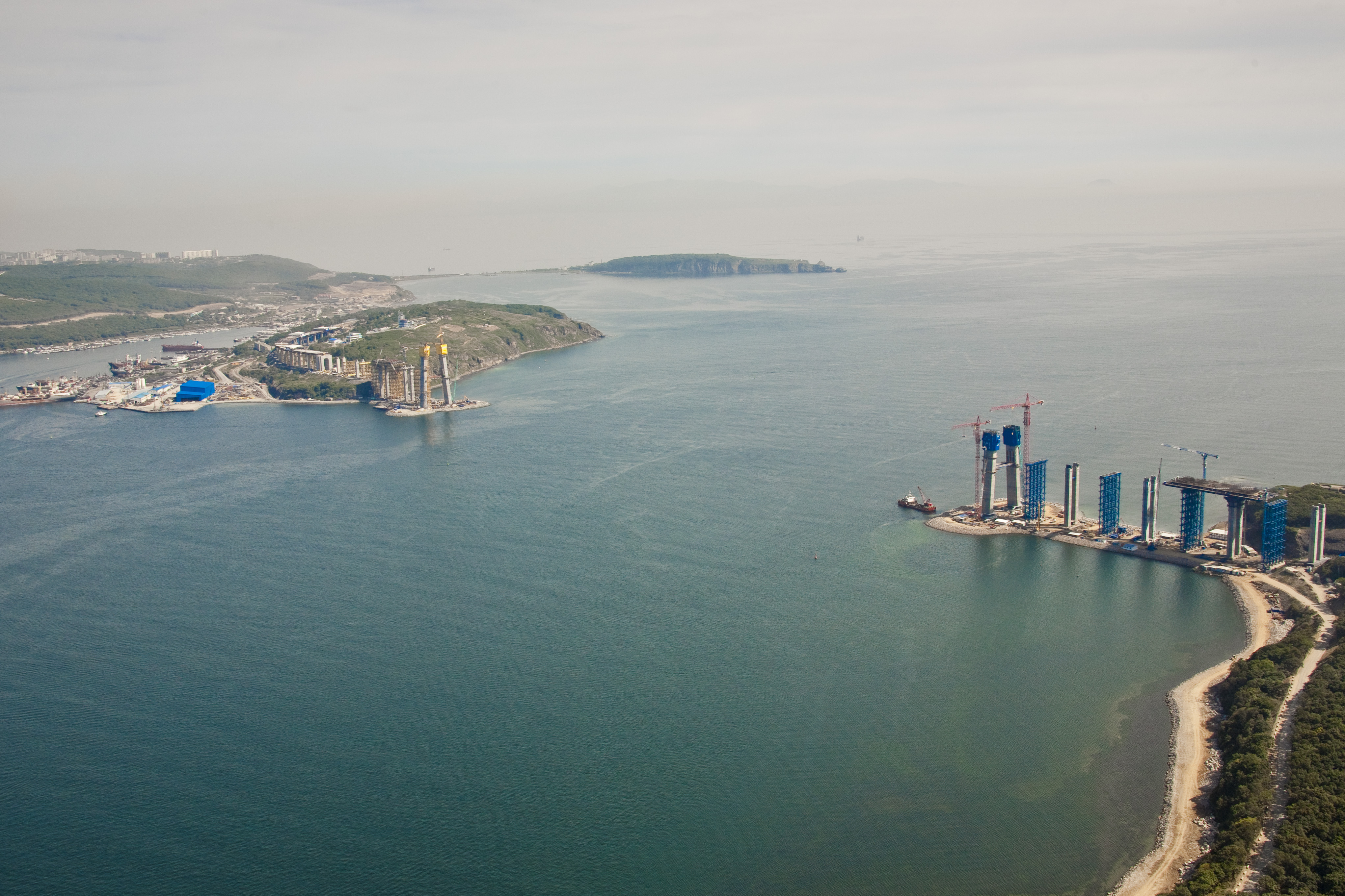 Vladivostok, Russia. Eastern Bosphorus strait between Vladivostok and Russian Island